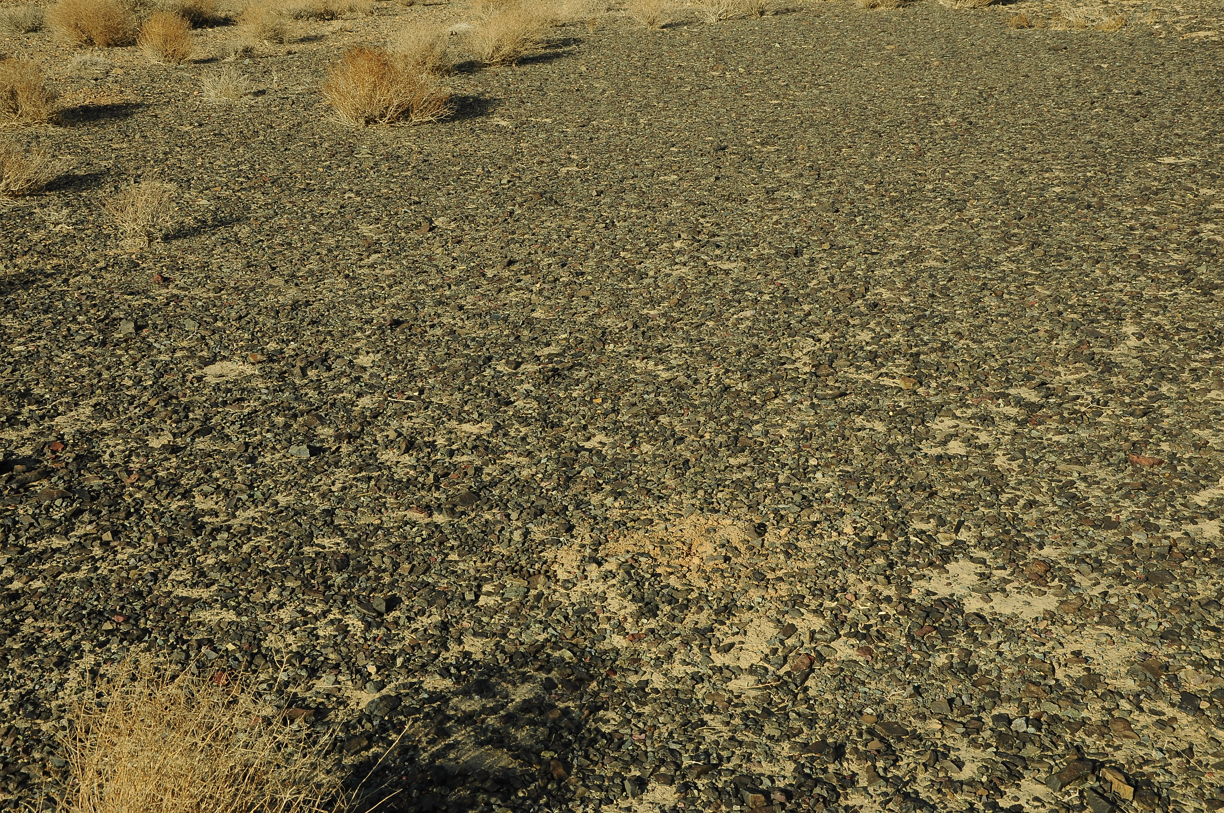 High developed desert pavement Vesicular layer thickness 8 cm, B layer thickness 30 cm, excellent developed varnish